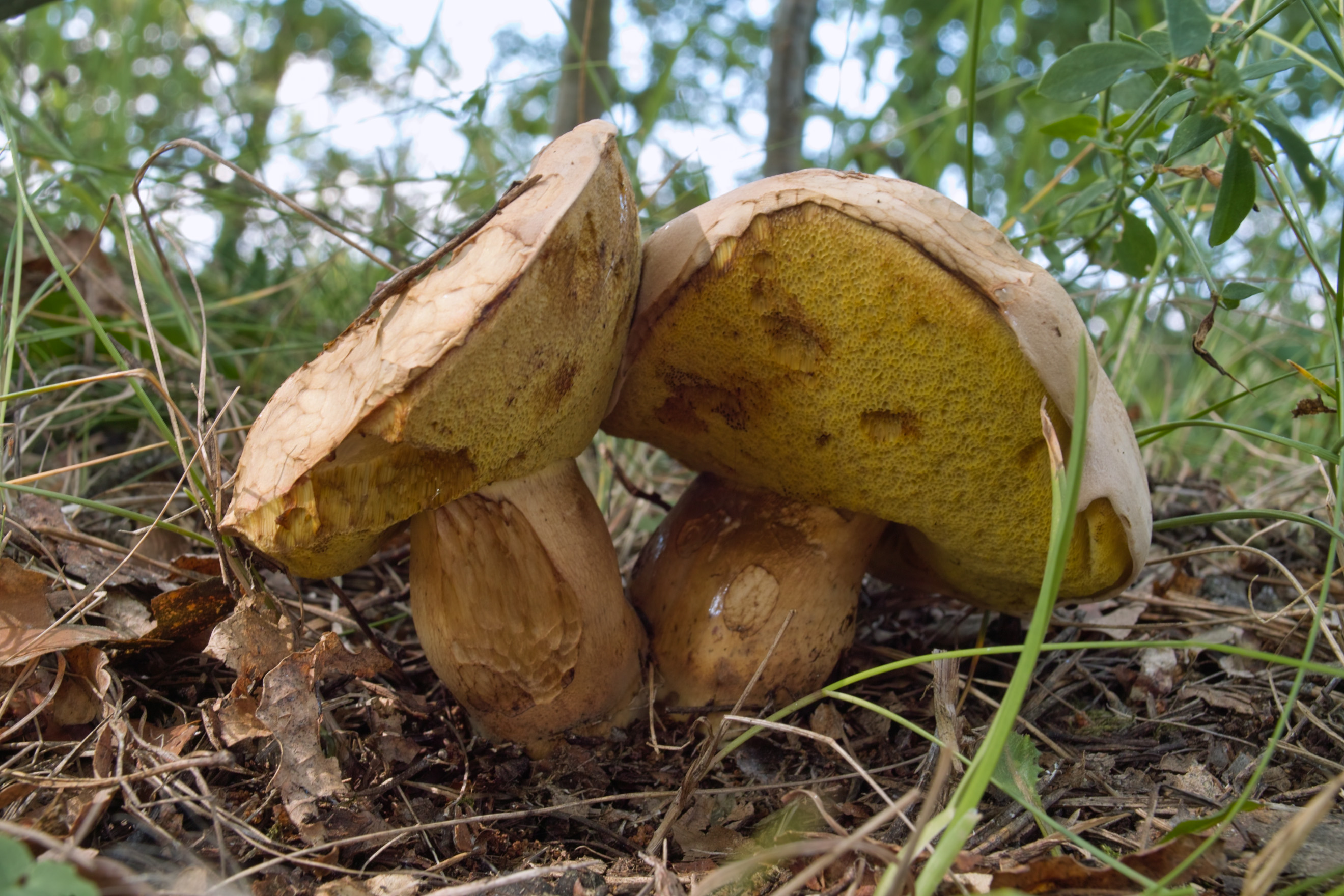 Boletus radicans, Luční, Czech Republic